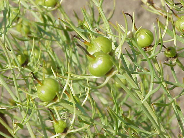 Species: Peganum harmala Family: Nitrariaceae Image No. 1